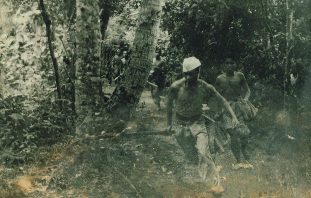 Guerilla fighters during the Indonesian National Revolution (1945-1949)